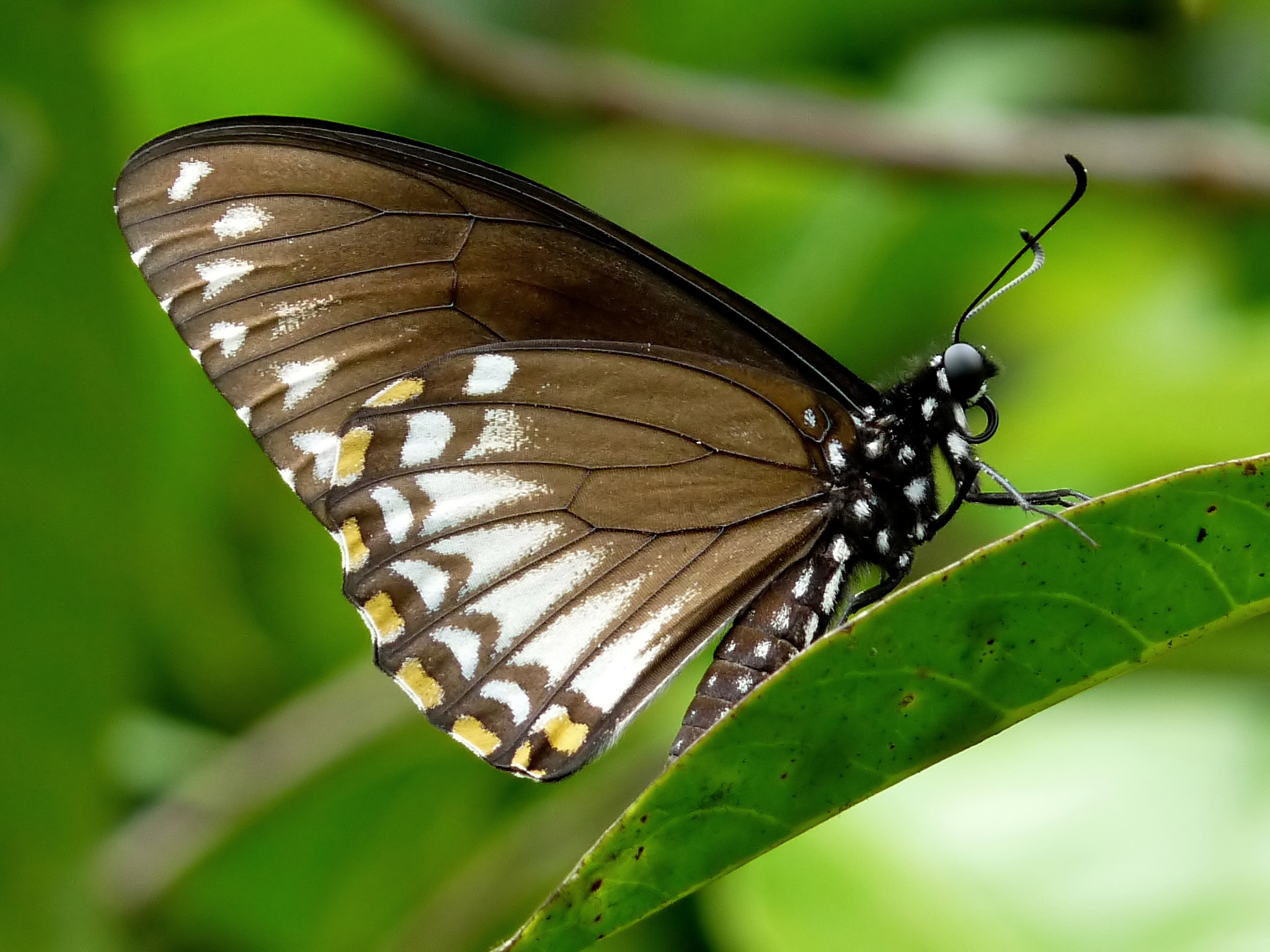 Papilio clytia form clytia, underside (mimics the Common Indian Crow, Euploea core) The Common Mime, Papilio clytia, is a Swallowtail butterfly found in South and South-east Asia. The butterfly belongs to the Chilasa group or the Black-bodied Swallowtails. It serves an excellent example of a Batesian mimic among the Indian butterflies. Taken at Kadavoor, Kerala, India.